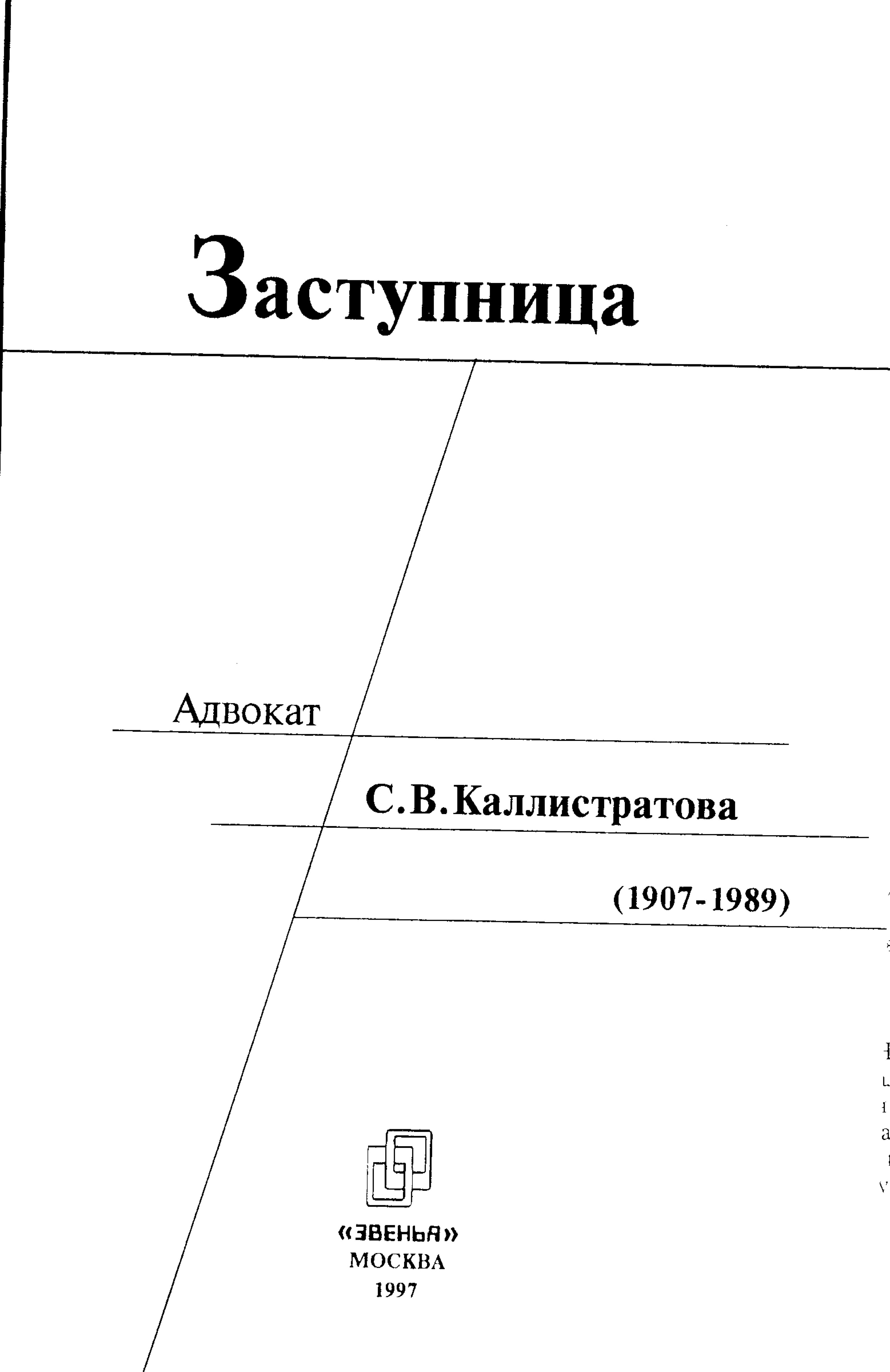 Title of the book